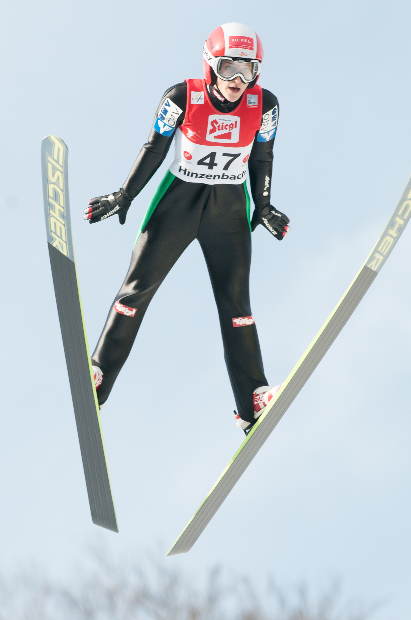 FIS Ski Jumping World Cup Ladies Hinzenbach 2016-02-07